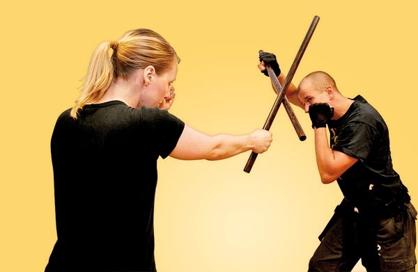 Stick fighting is one of the most famous parts of Eskrima, Filipino Martial Arts